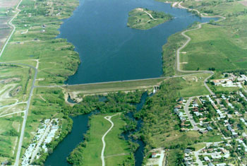 Jamestown Dam